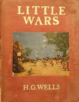 US 1st edition cover of H. G. Wells's Little Wars.